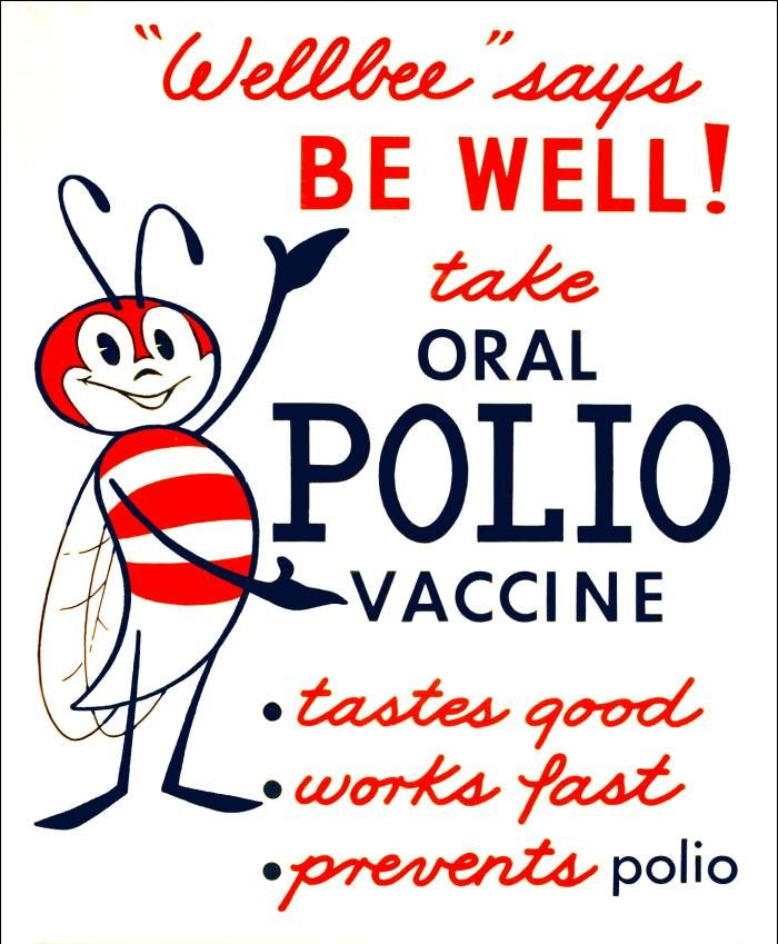 This 1963 poster featured CDC’s national symbol of public health, the "Wellbee", who was depicted here encouraging the public to receive an oral polio vaccine. CDC used the Wellbee in its comprehensive marketing campaign that used newspapers, posters, leaflets, radio and television, as well as personal appearances at public health events. Wellbee’s first assignment was to sponsor Sabin Type-II oral polio vaccine campaigns across the United States. Later, Wellbee’s character was incorporated into other health promotion campaigns including diphtheria and tetanus immunizations, hand-washing, physical fitness, and injury prevention. This artifact can be found in the Global Health Odyssey, which is the CDC’s museum featuring many various public health-related artifacts.